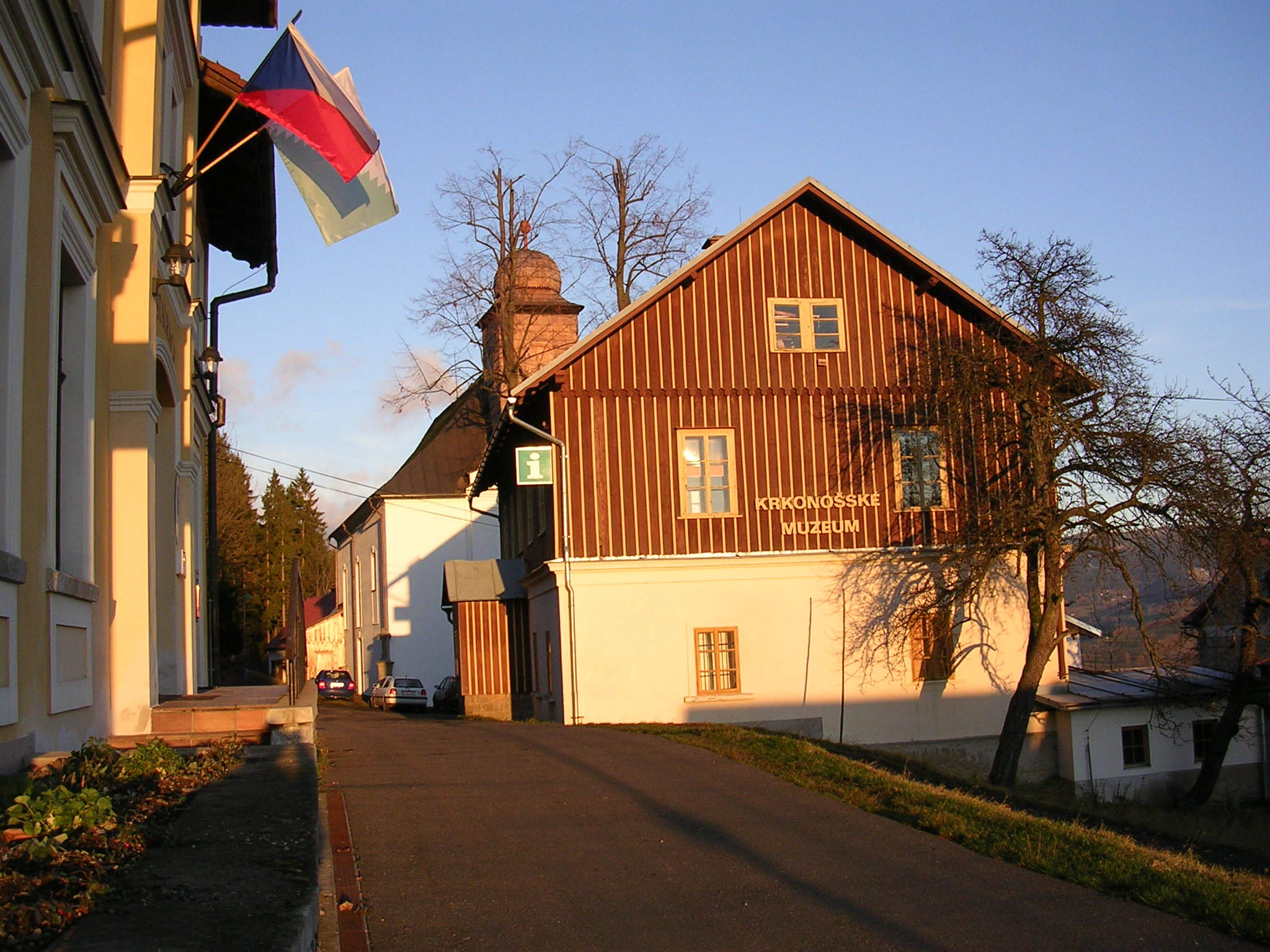 Paseky nad Jizerou, the Czech Republic.